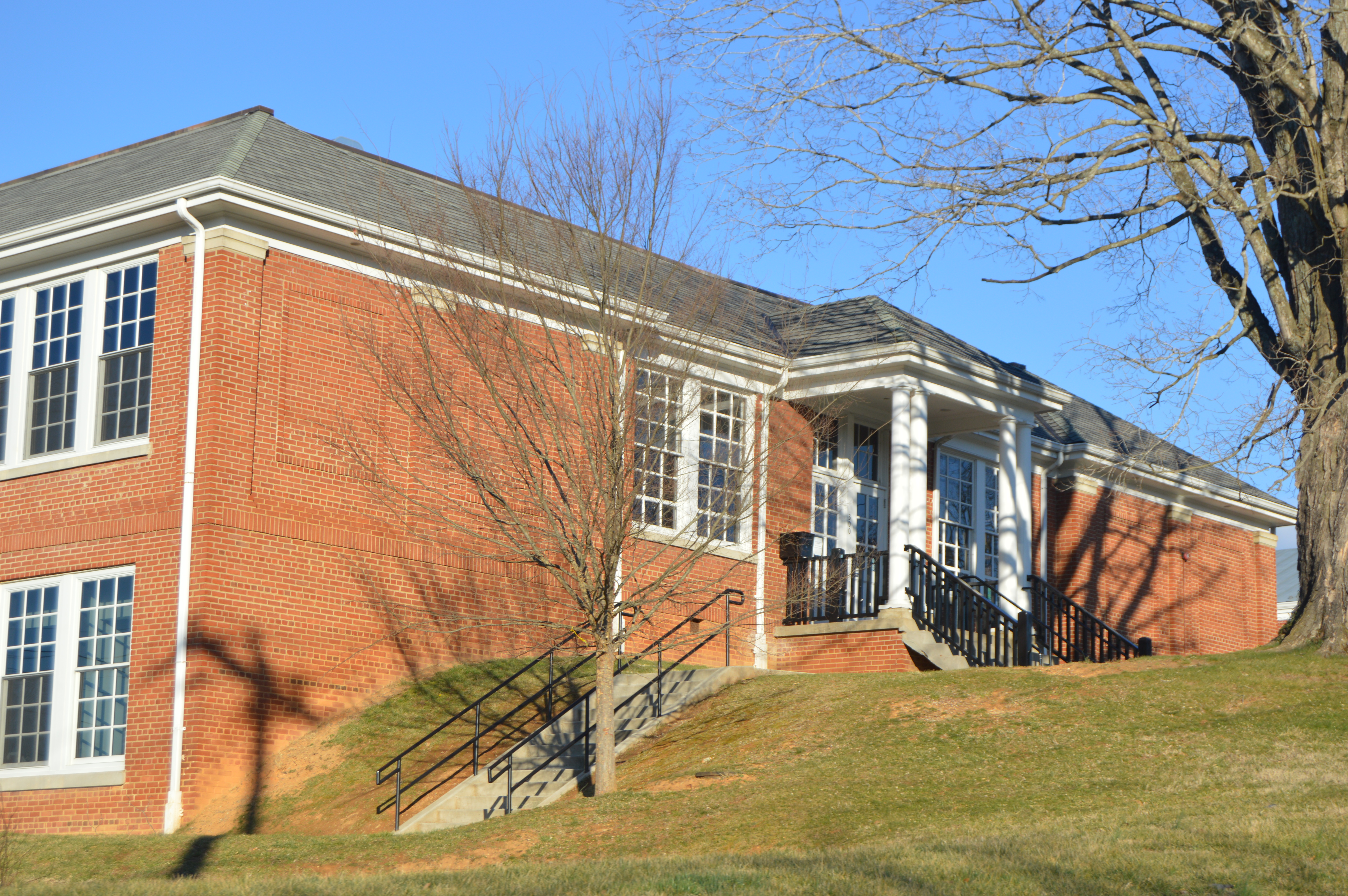 Front of the former Lylburn Downing School (now a community center), located at 300 Diamond Street in Lexington, Virginia, United States. Built in 1927, it is listed on the National Register of Historic Places.